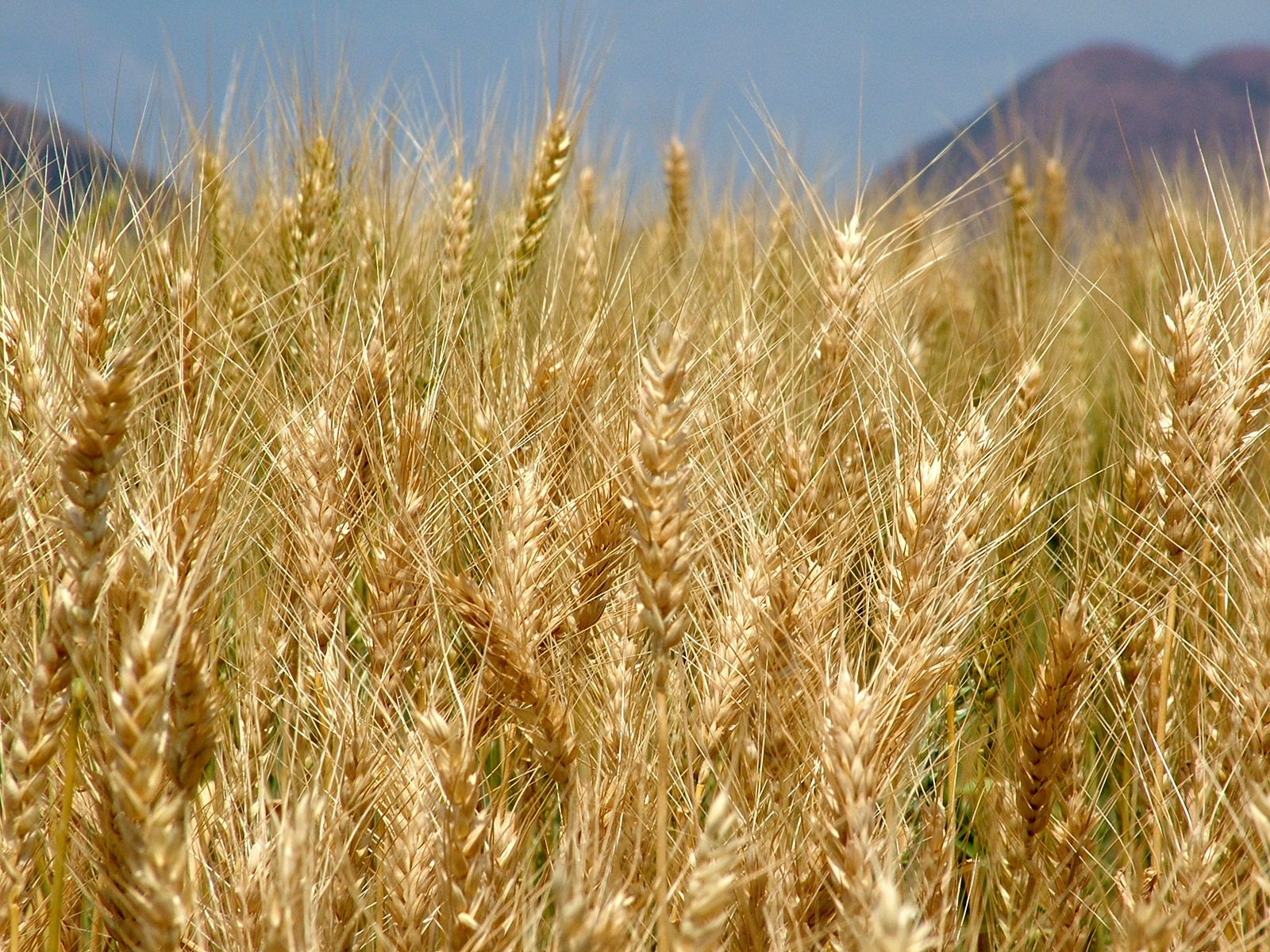 Wheatfield in South Africa